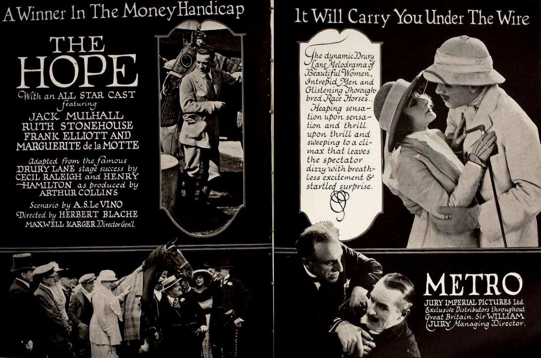 Ad for the American film The Hope (1920) with Jack Mulhall, Ruth Stonehouse, and Frank Elliott, on page 4494 and 4495 of the May 29, 1920 Motion Picture News.